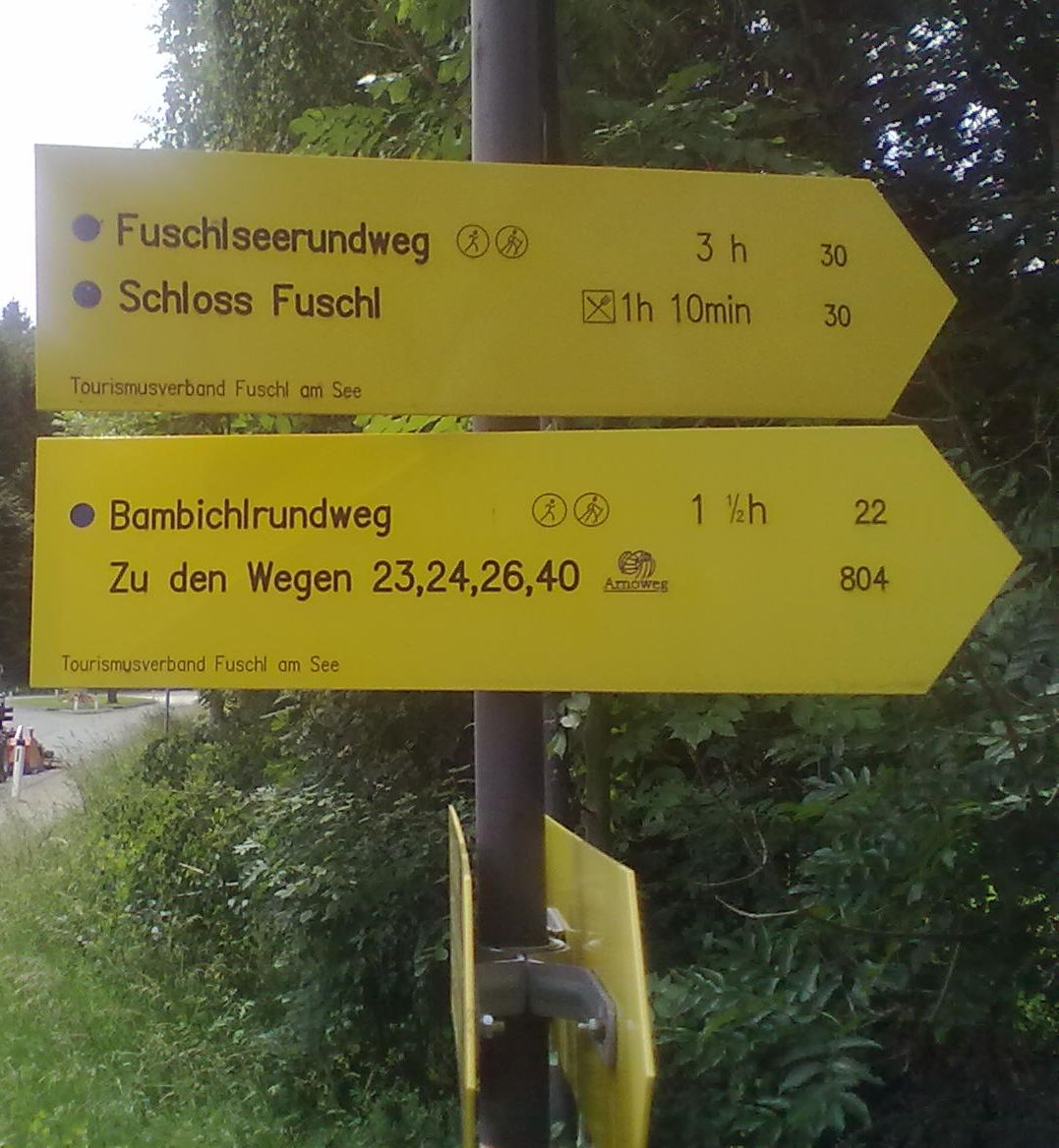 sign post of hiking trail Weitwanderweg 04